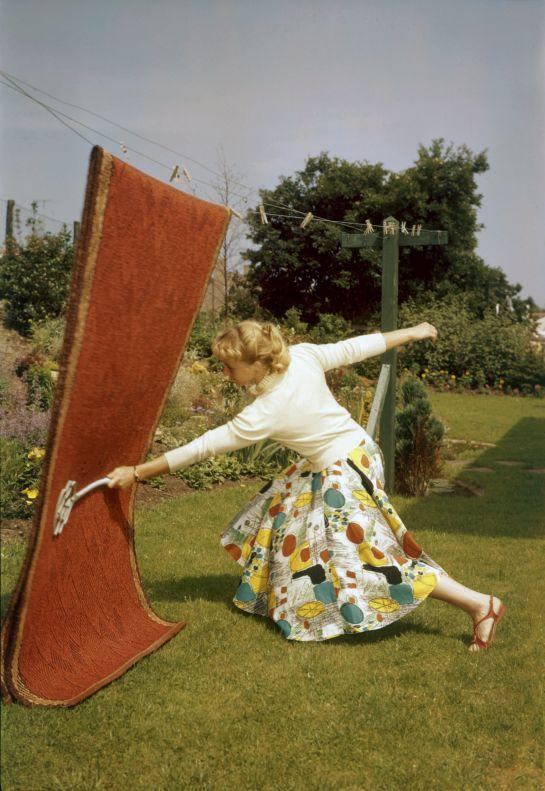 Housewife gymnastics: beating out a carpet with a carpet-beater. The Netherlands, early 1960 's.